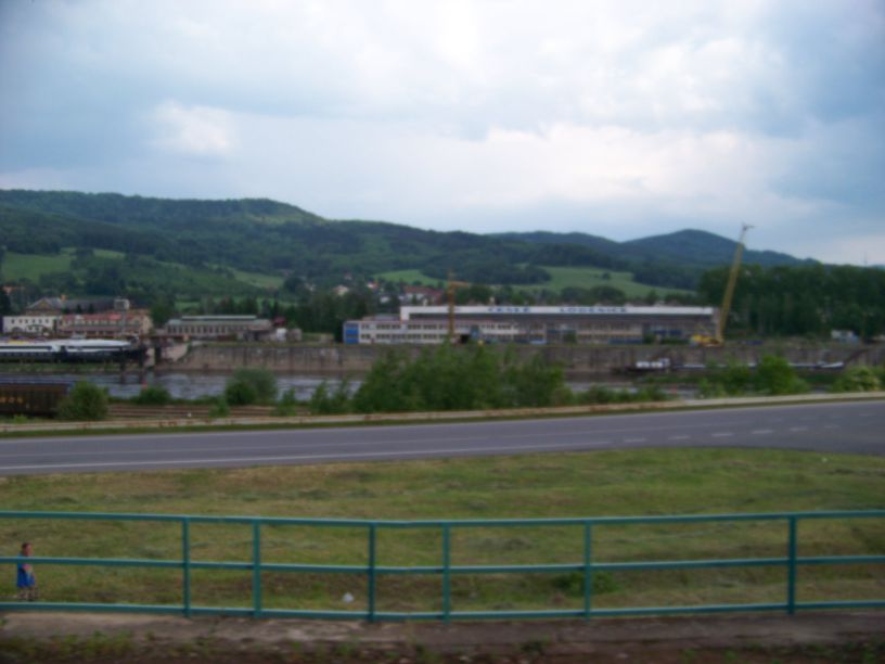 Děčín XXXI-Křešice, Děčín District, Ústí nad Labem Region, the Czech Republic. The Czech Shipyards. - Google Maps - Google Earth